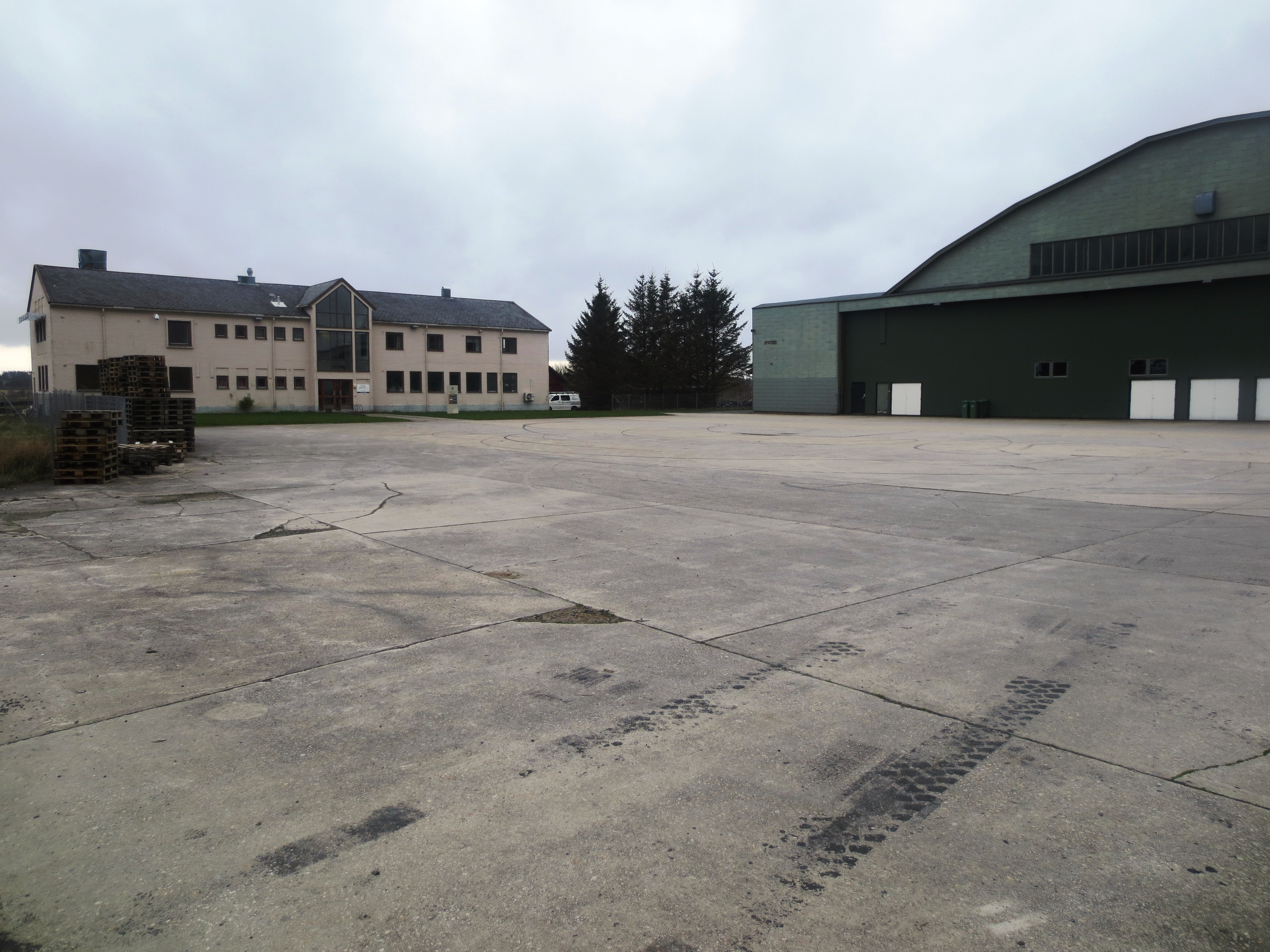 The former Lista flystasjon (Lista Air Force Station) in the municipality of Farsund, Norway